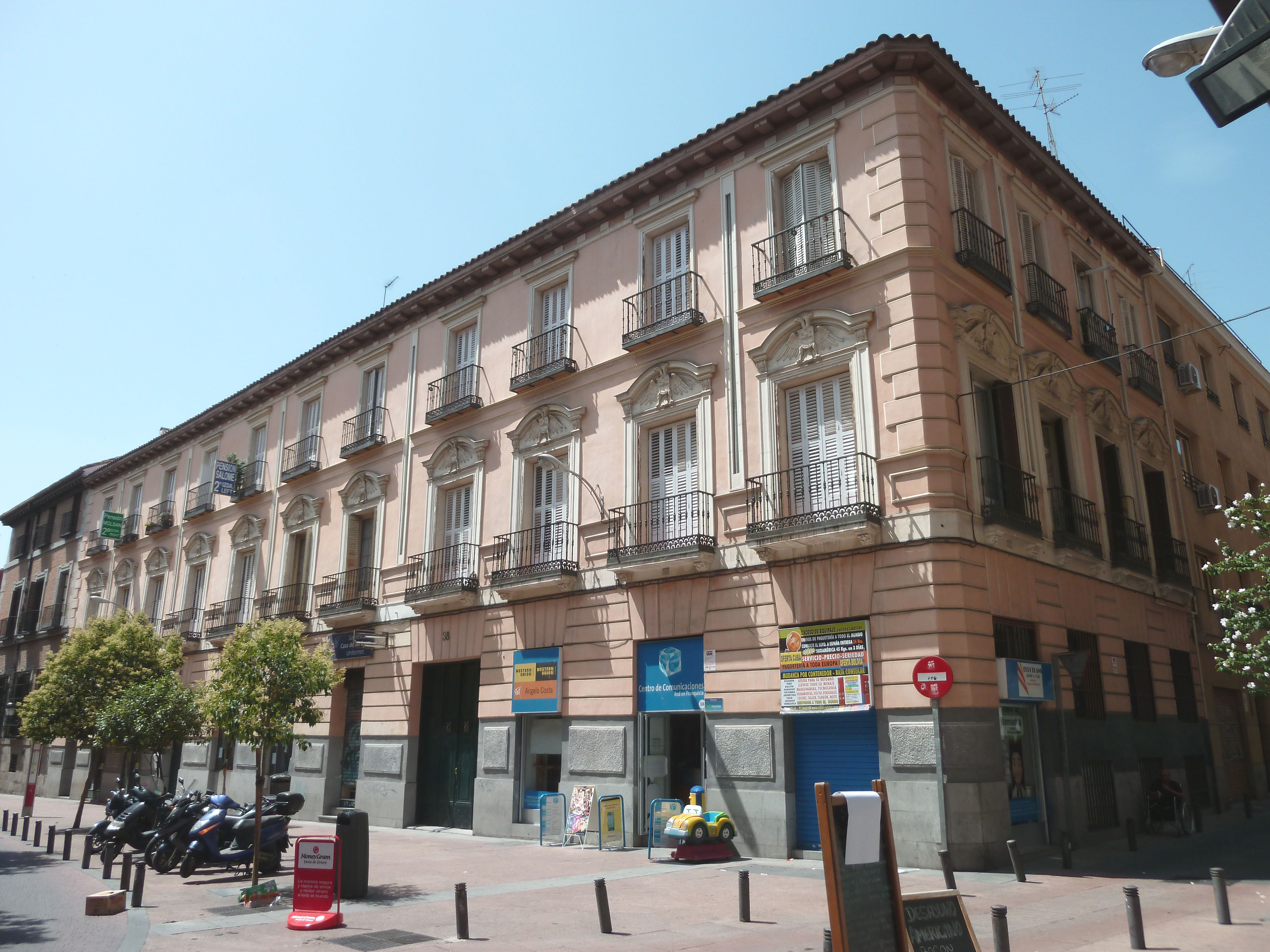 Façade of the former Mansion of the Duke of Baena at 38-40 Calle del Pez (street) in Centro district in Madrid (Spain). It was projected in 1860 by architect Wenceslao Gaviña.